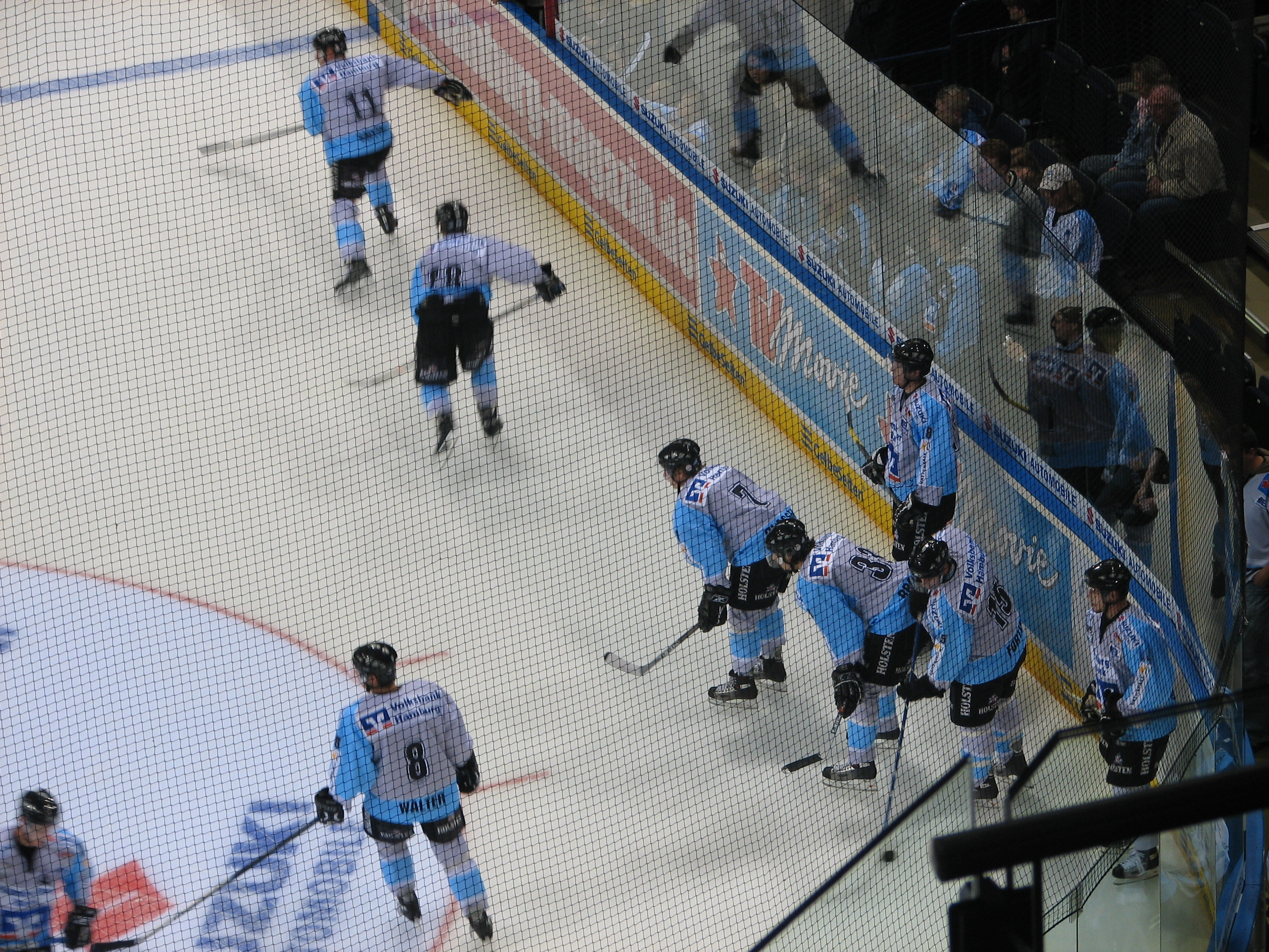 Hamburg Freezers in the Color Line Arena